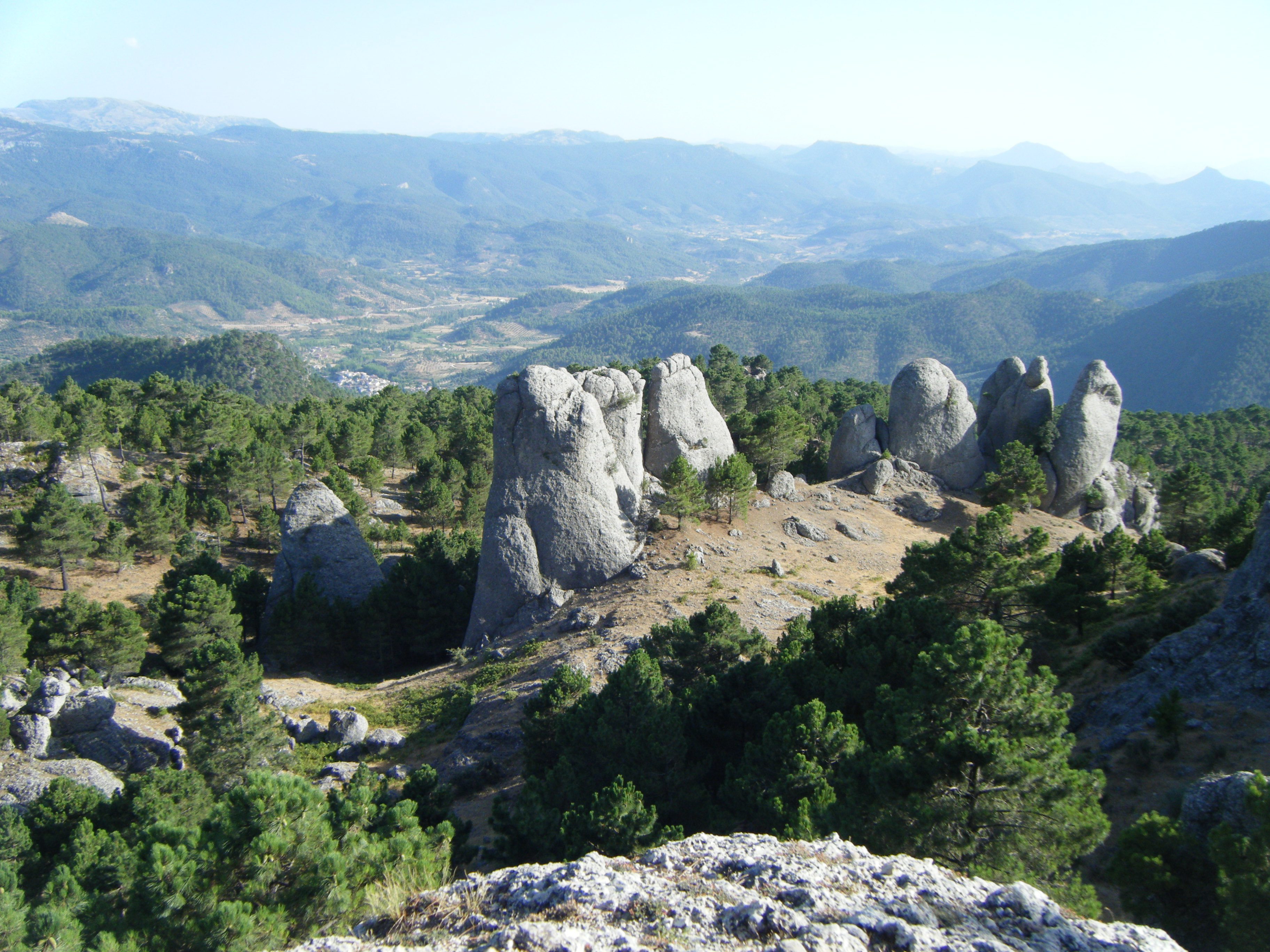 Rocks known as "Los Picarazos" in Villaverde de Guadalimar (Albacete, Spain)